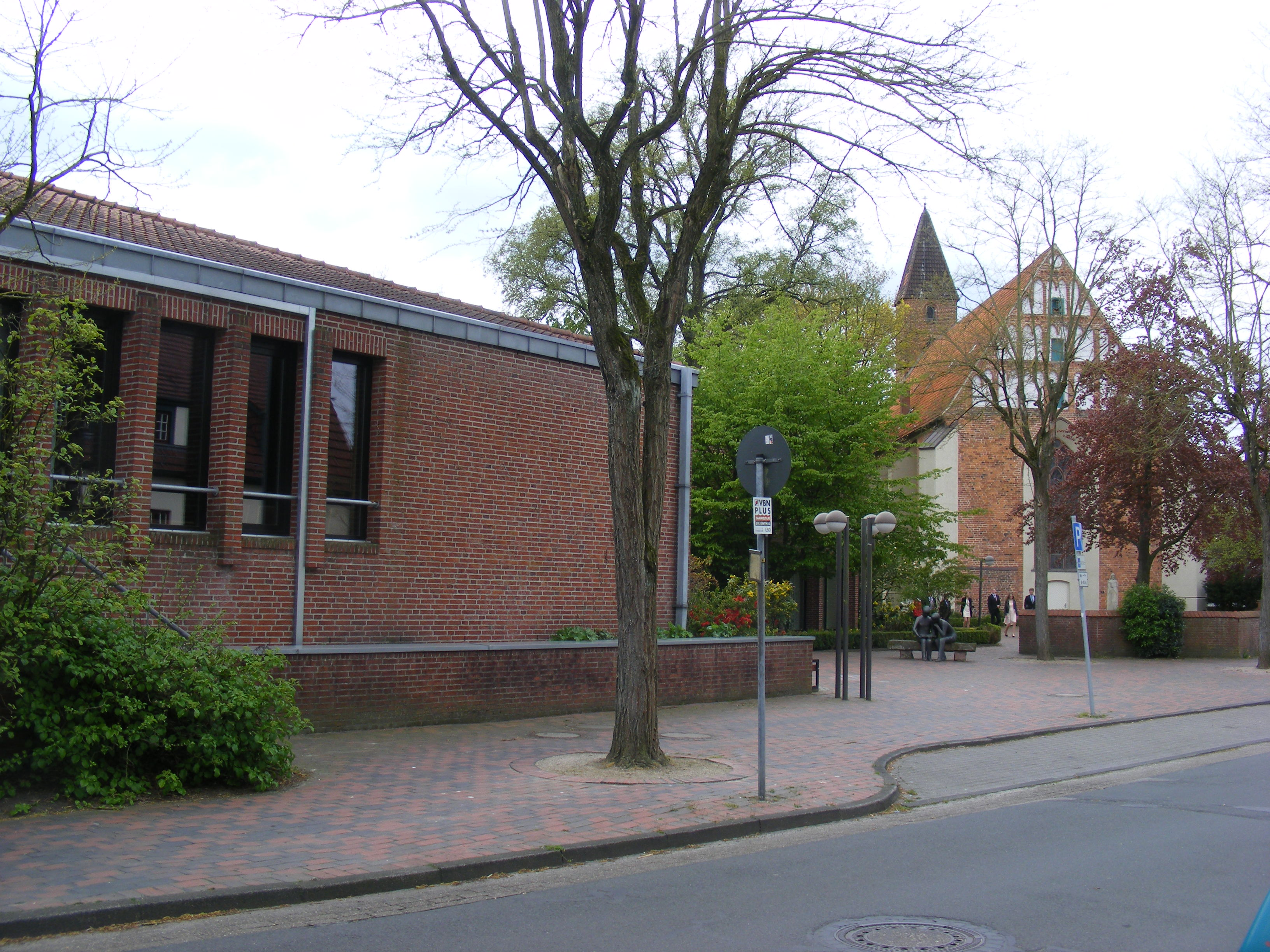 View from Lilienthal town hall (on the left) to the abbey church